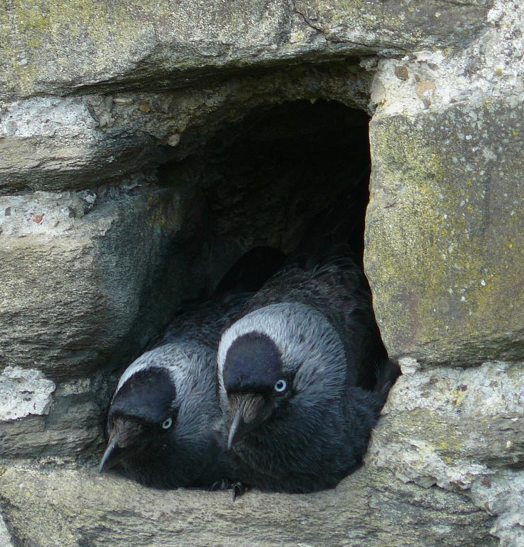 Two Jackdaws (Corvus monedula) in a hole in a wall at Conwy Castle, Clwyd, Wales.